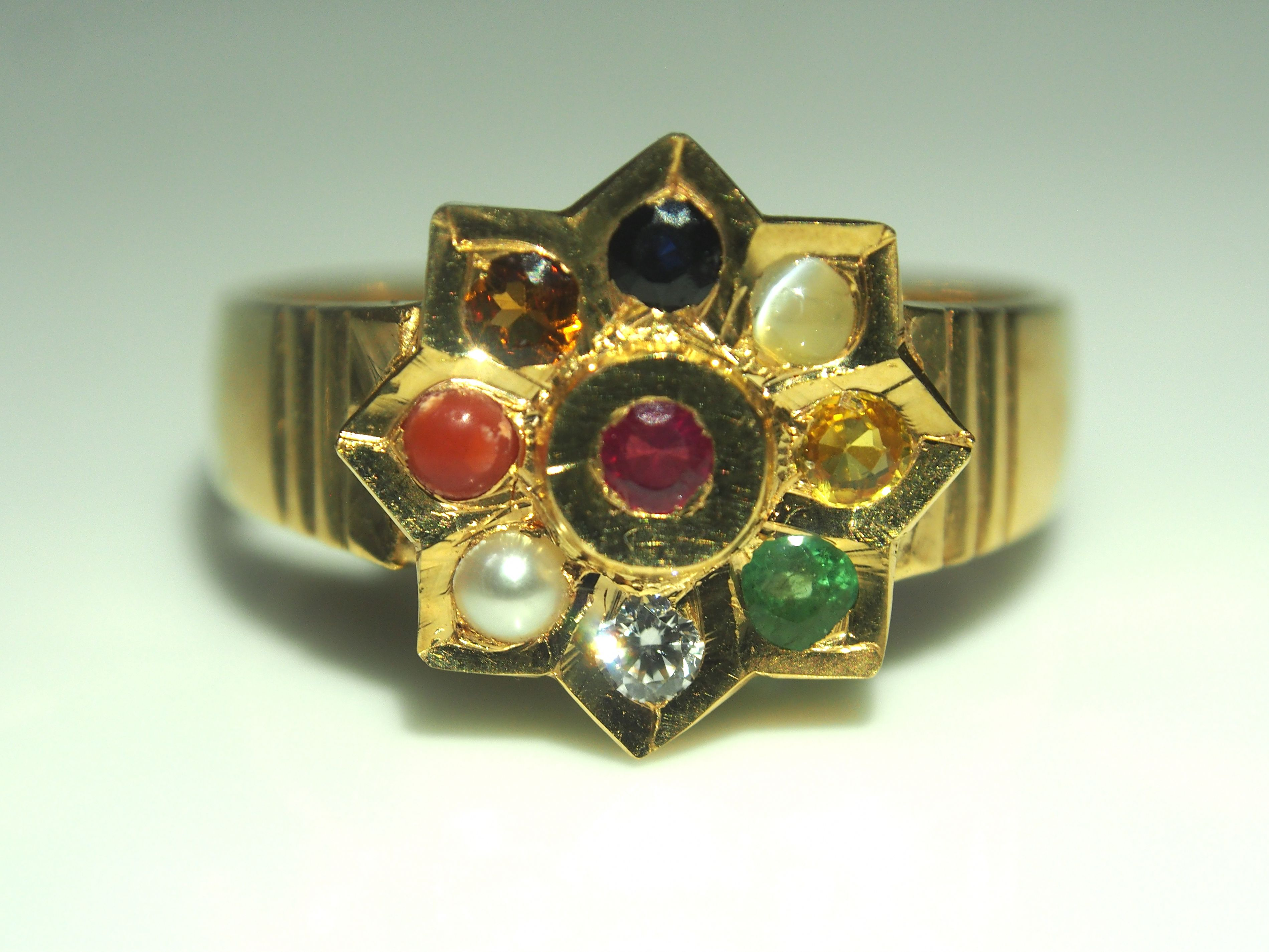 A golden ring studded with nine gems, known as Navaratna